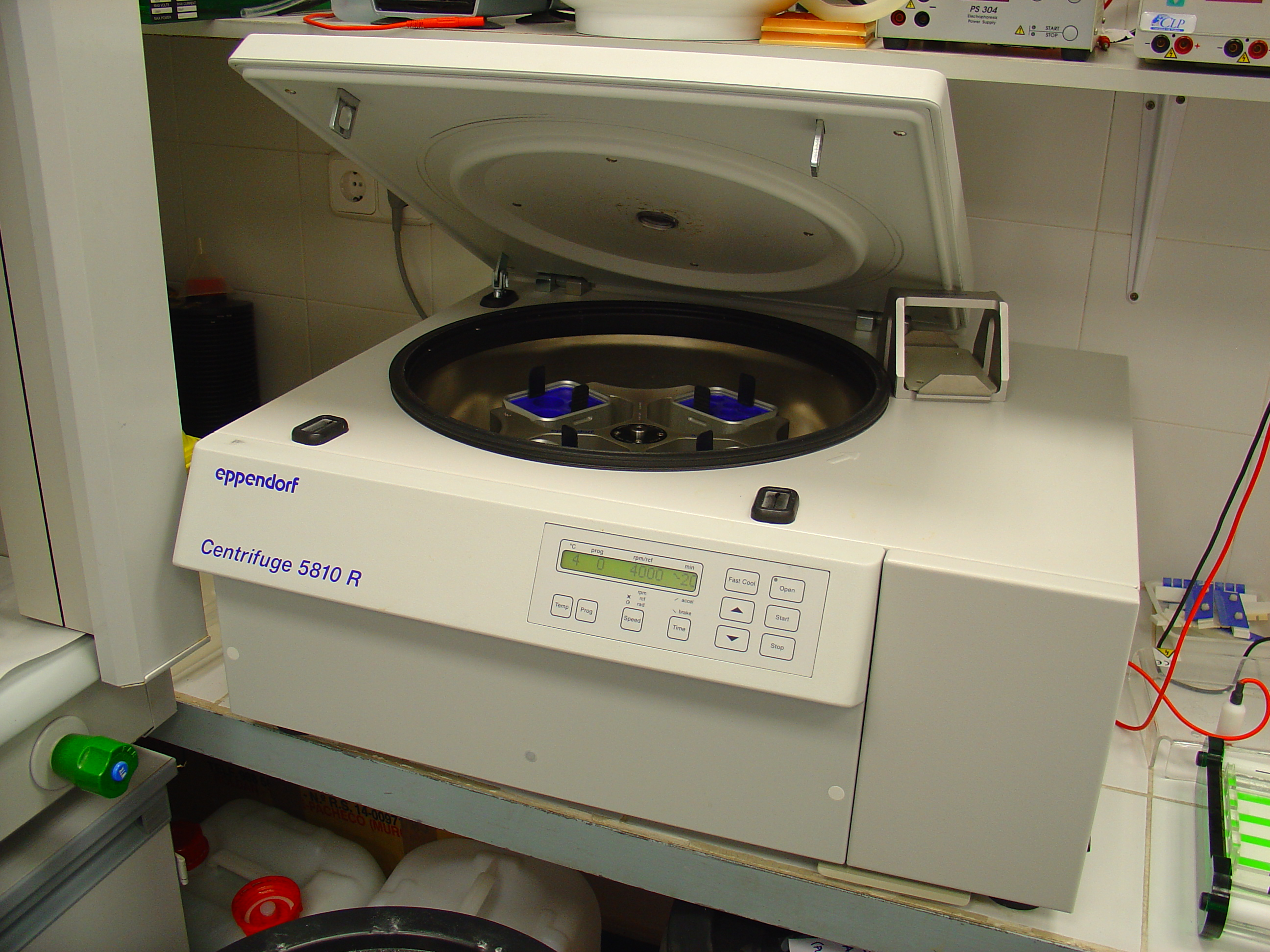 Multipurpose centrifuge.Refrigerated, variable speed, swing-bucket and high-speed fixed-angle rotors.